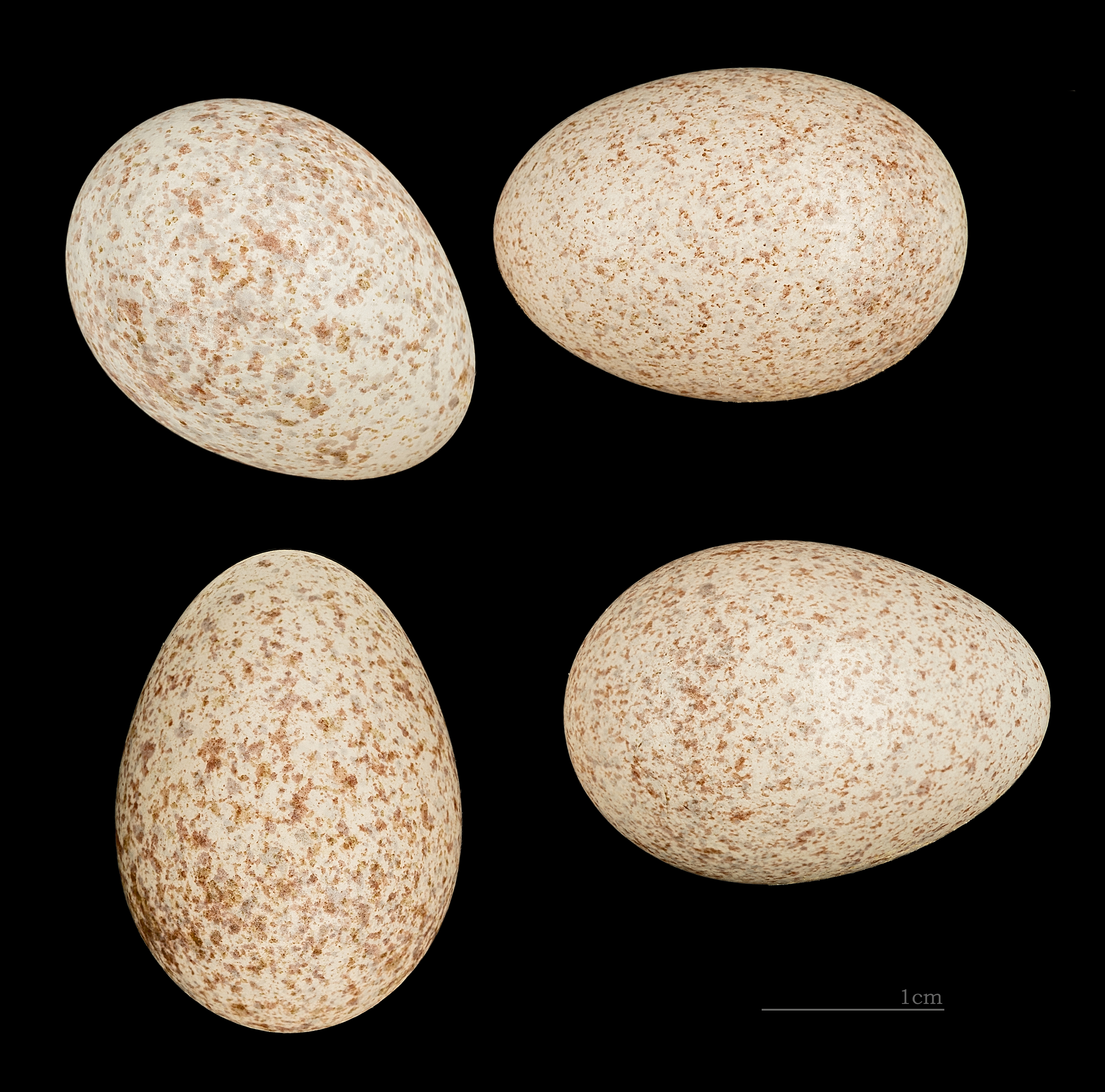 Egg of Thick-billed Lark Collection of Henri Heim de Balsac / Jacques Perrin de Brichambaut.